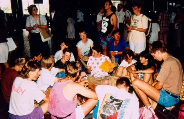 Caption: Youth marking time after registration. Citation: Mennonite World Conference. Twelfth Mennonite World Conference, 1990, Winnipeg, Canada. Slides by T. Klassen; Script by John Dyck. X-9 Box 52 Folder 4 Slide 92. Mennonite Church USA Archives - Goshen. Goshen, Indiana.